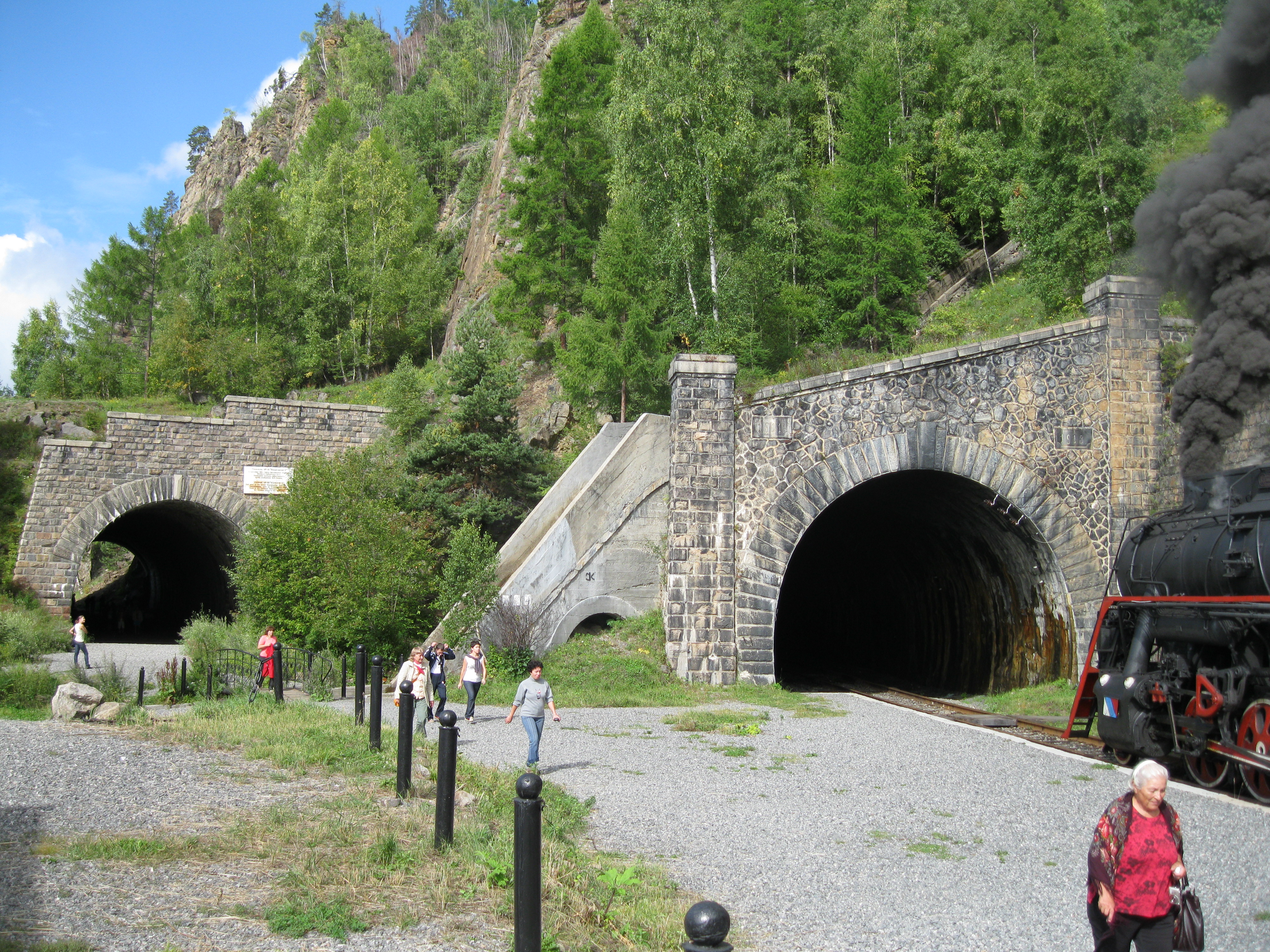 Tunnels №18 & 18-bis (CBR)